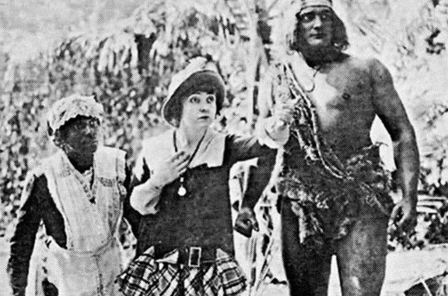 Tarzan of the Apes is a 1918 American silent action adventure film directed by Scott Sidney starring Elmo Lincoln, Enid Markey, and in the left of this screen shot is Madame Sul-Te-Wan